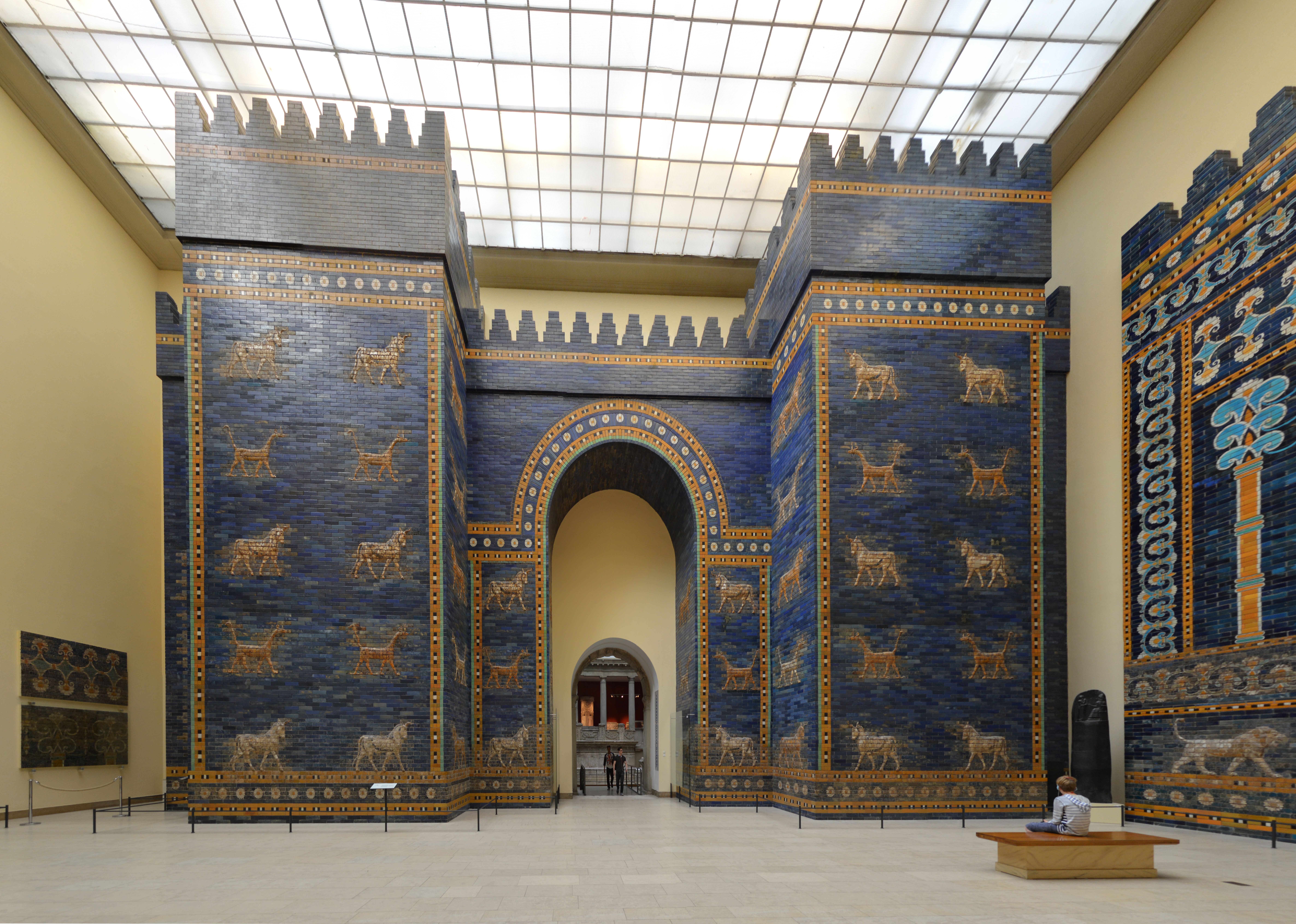 A stitched image showing the Ishtar gate of Babylon in full view.